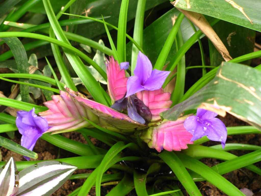 Wonderful color combination